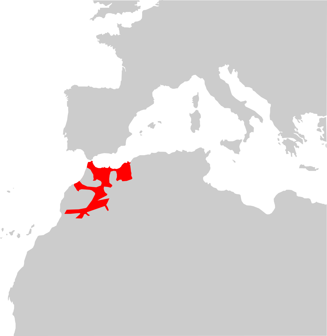 Timon tangitanus distribution map.